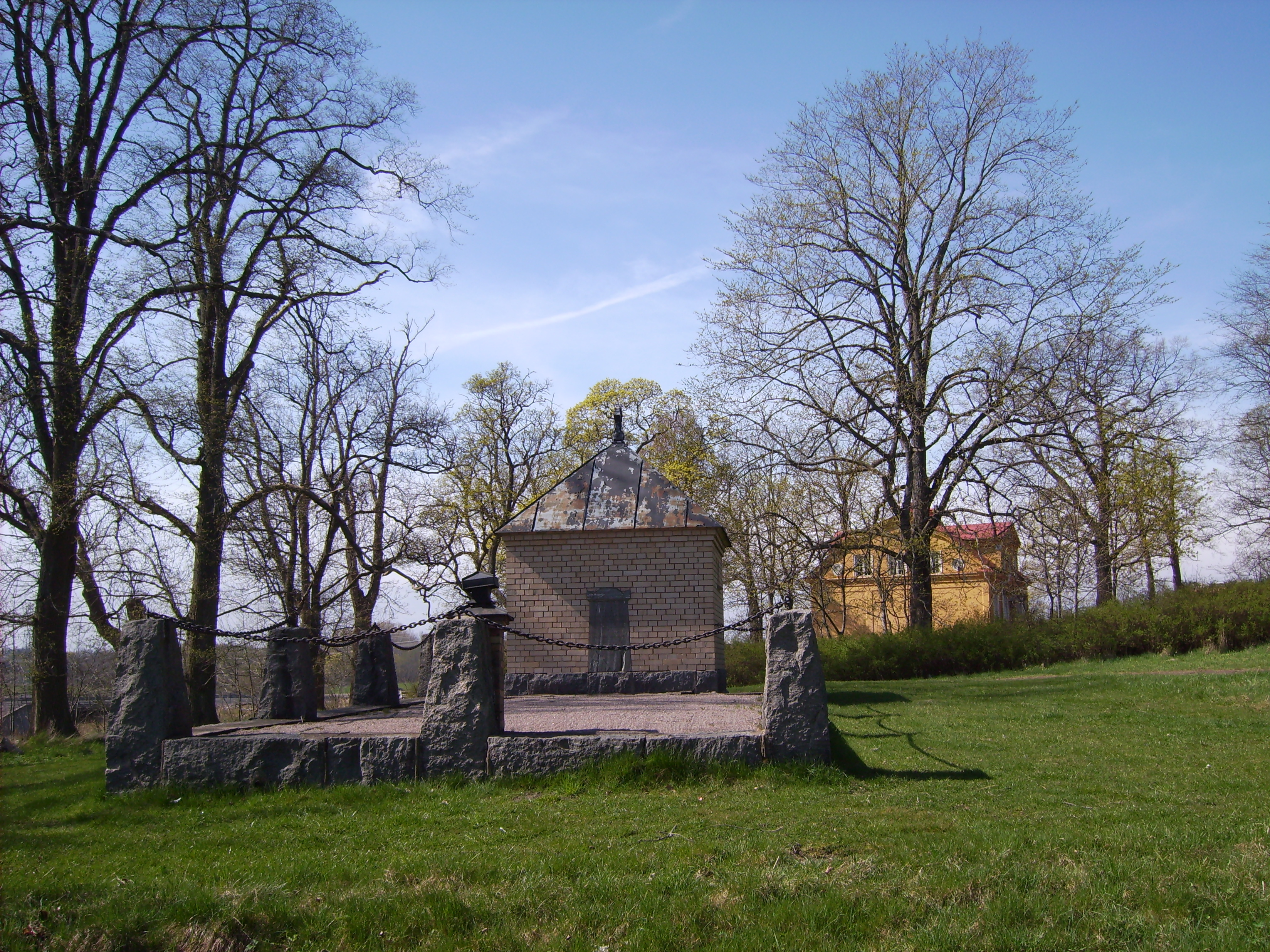 Photo by Harri Blomberg.